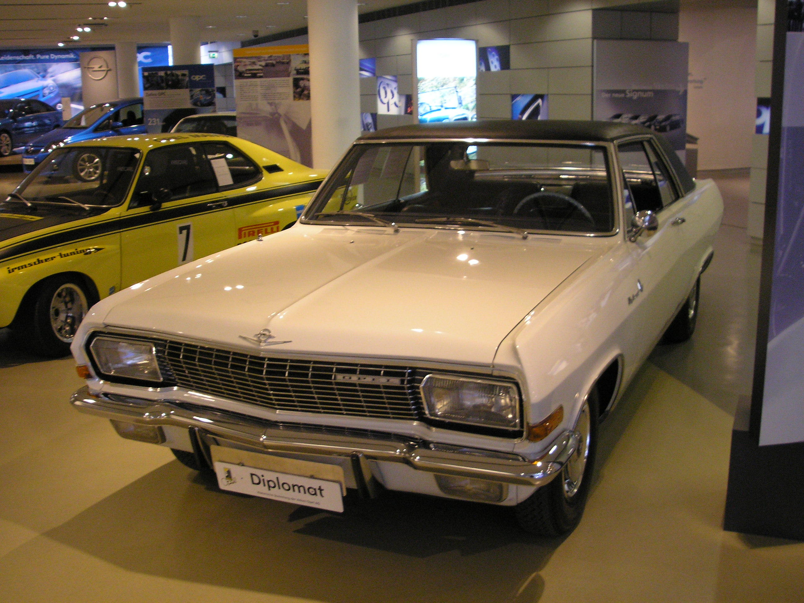 Description: Opel Diplomat, image taken at the Opel Zentrum in Berlin at Friedrichstraße. Model of around 1964 or after. Source: self-made, I release it into the public domain. Gryffindor 17:23, 9 March 2006 (UTC)